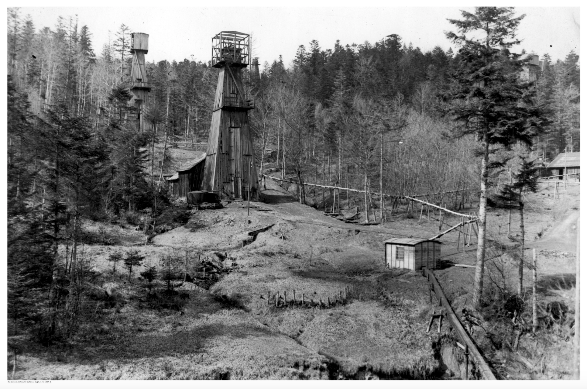 Oil wells in Subcarpathian village Klimkówka (Poland)